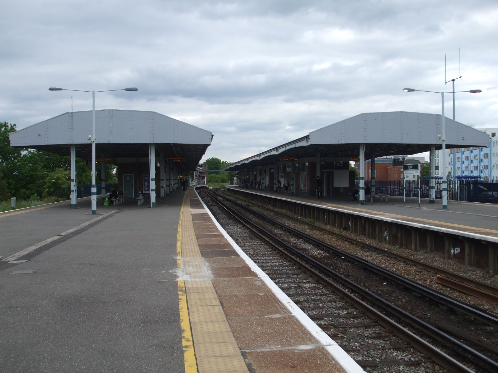 Epsom station platform 3 looking north. Used by northbound Southern trains (access only to the line via Sutton north of here).